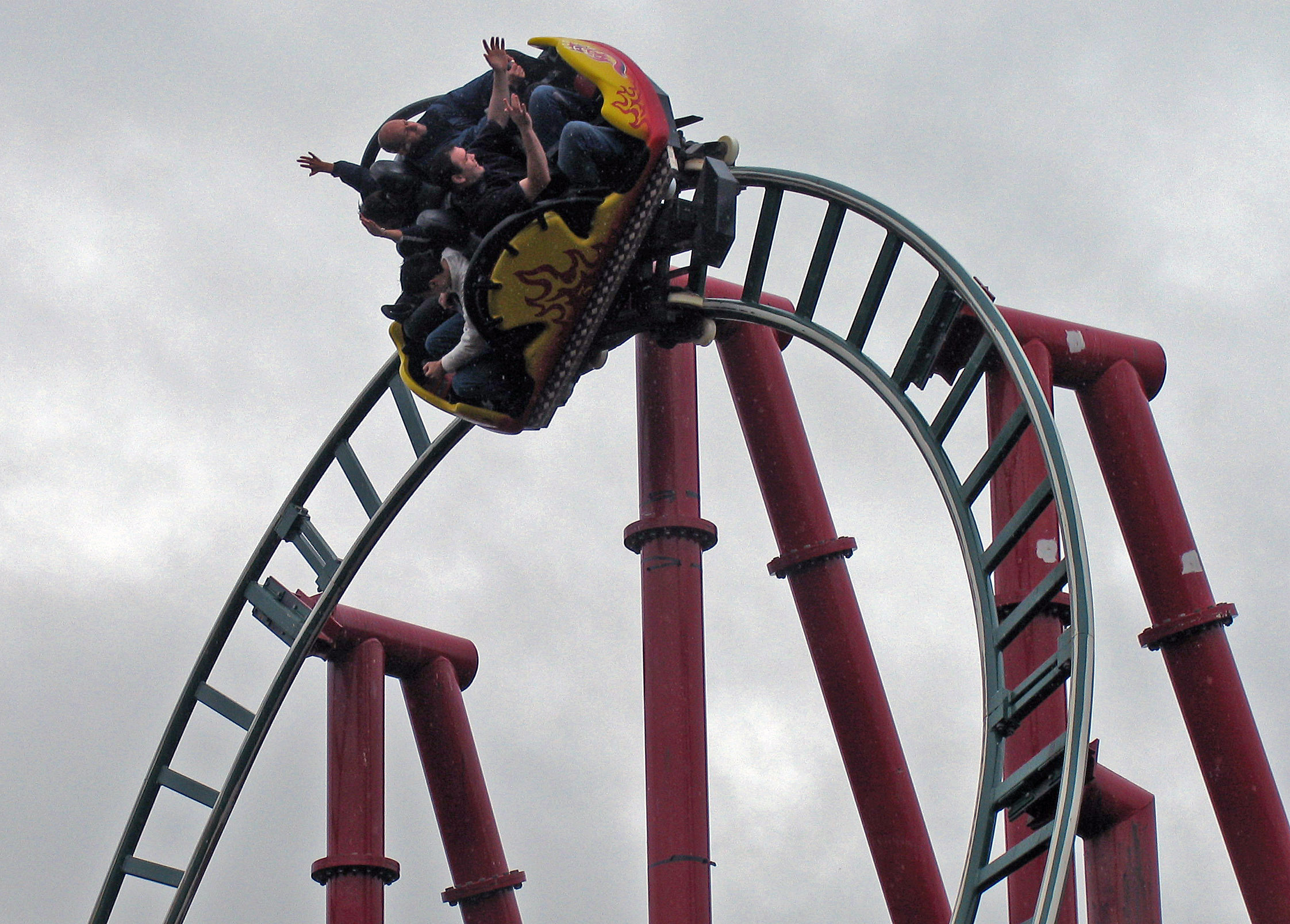 Spinning Coaster Dragons Fury at Chessington World of Adventures